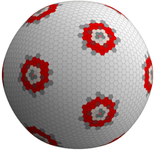 Conway polyhedron notation, [1]